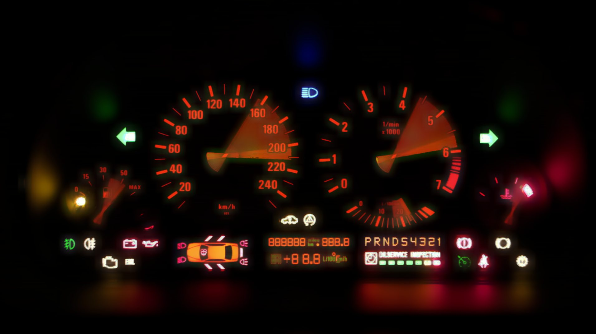 BMW E39 5-Series MY1999 instrument panel